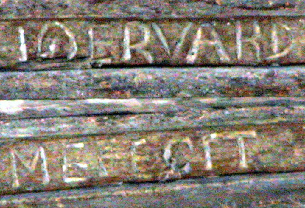 Brunswick cathedral, Imerward's Cross